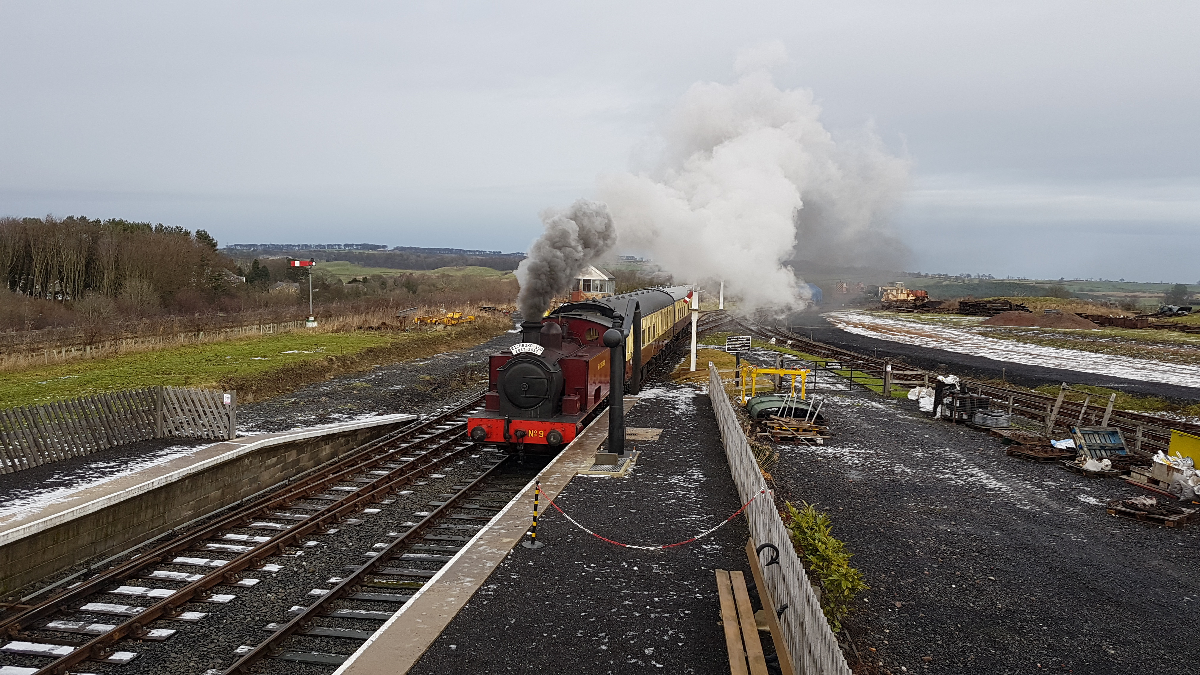 View N of Hudswell Clarke 0-6-0T no. 9 "Richboro" approaching platform 1 of the Aln Valley Railway's Lionheart Station on 20 December 2017. Lionheart Signal Box and the western headshunt can be seen in the background to the left and the junction signal and eastern headshunt in the background to the right. Taken from Lionheart footbridge.